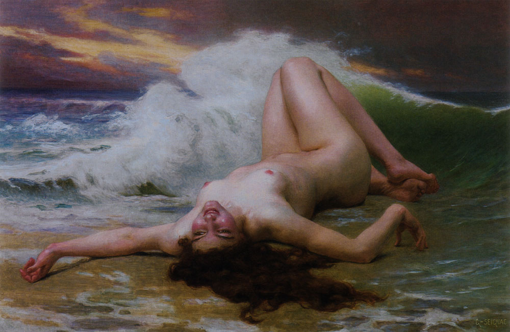 The Wave